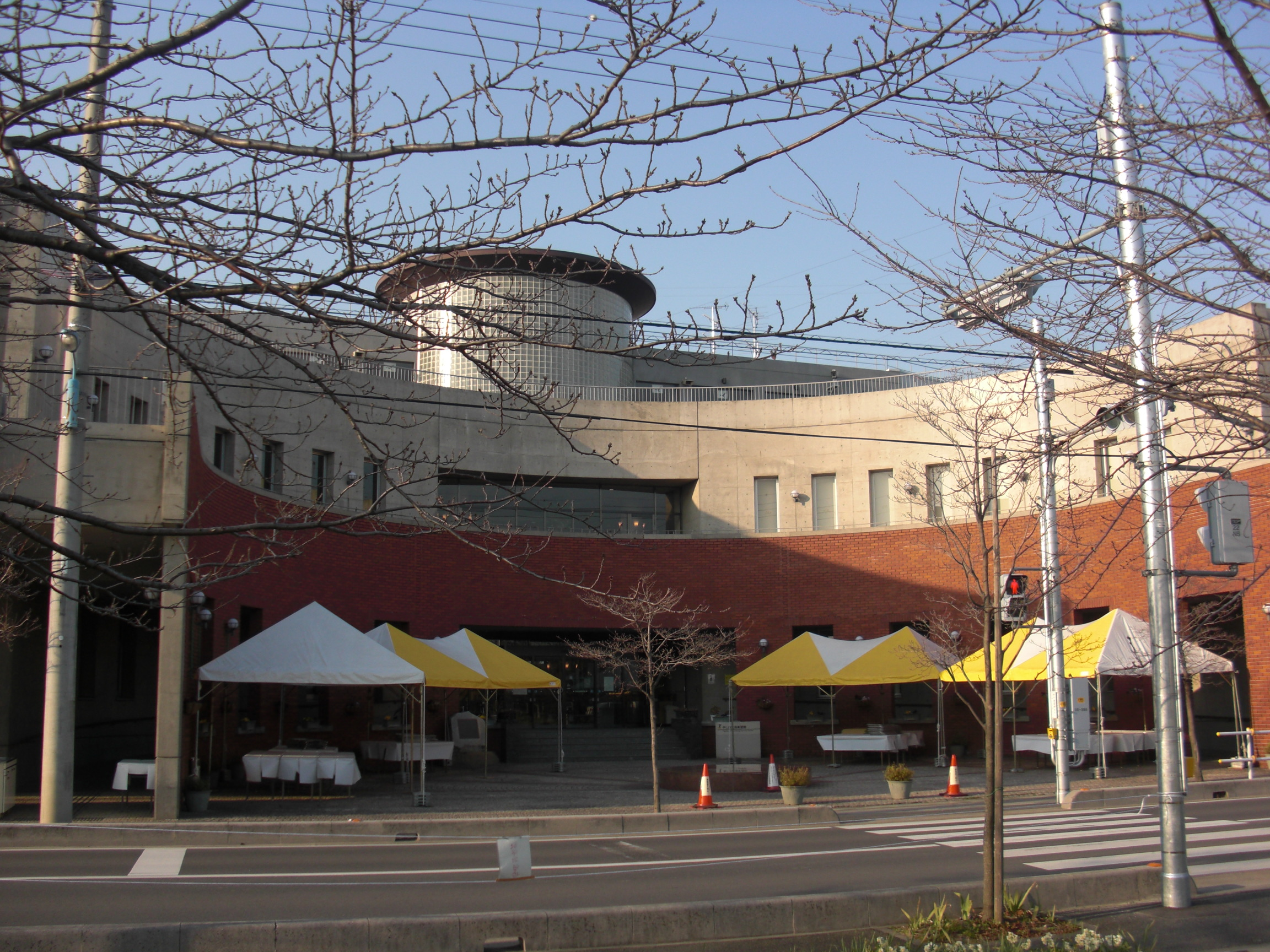 This is the Yashio Lifelong Learning Building, which is located in Yashio, Saitama, Japan.